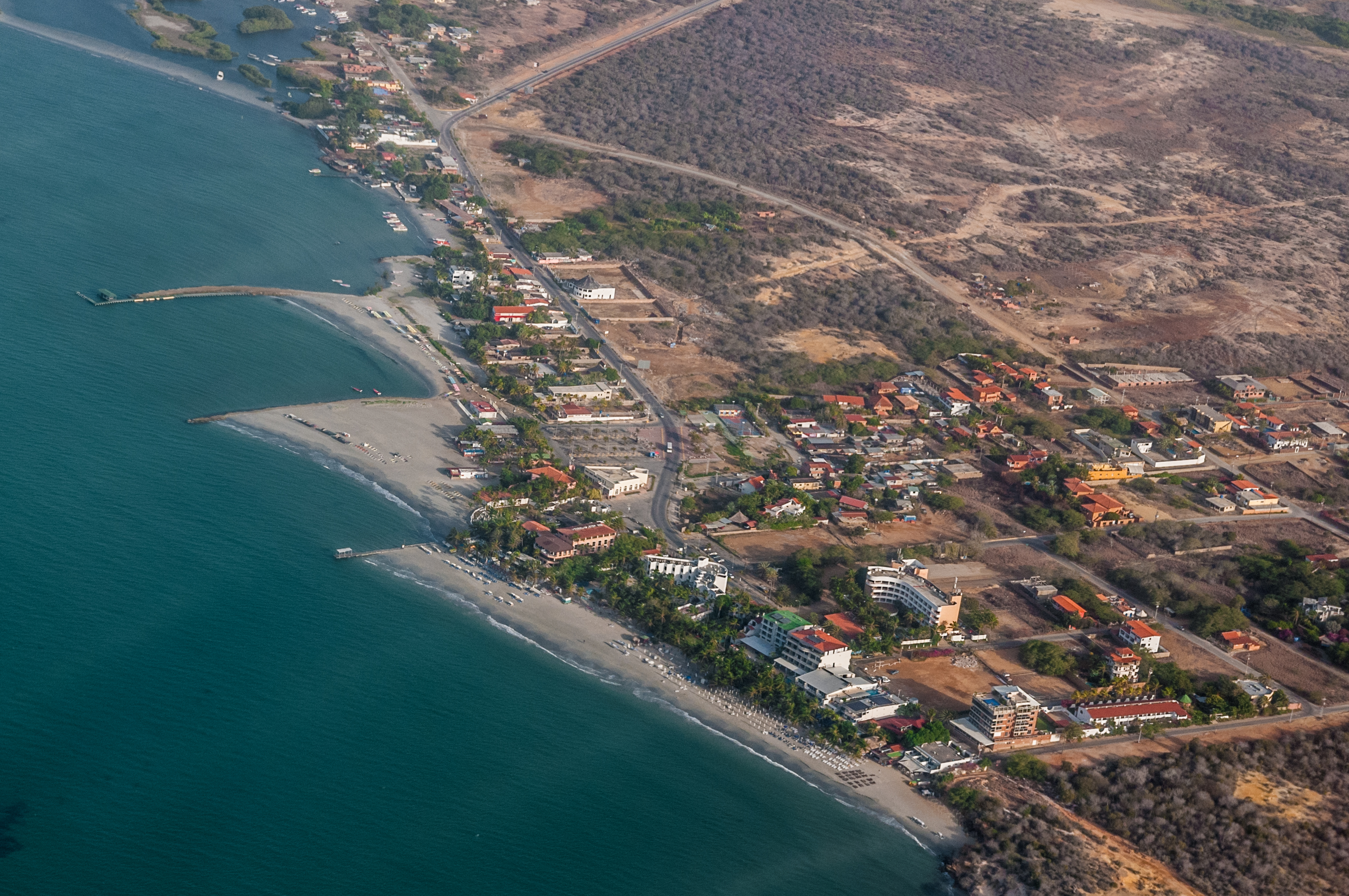 Aerial view of El Yaque Beach